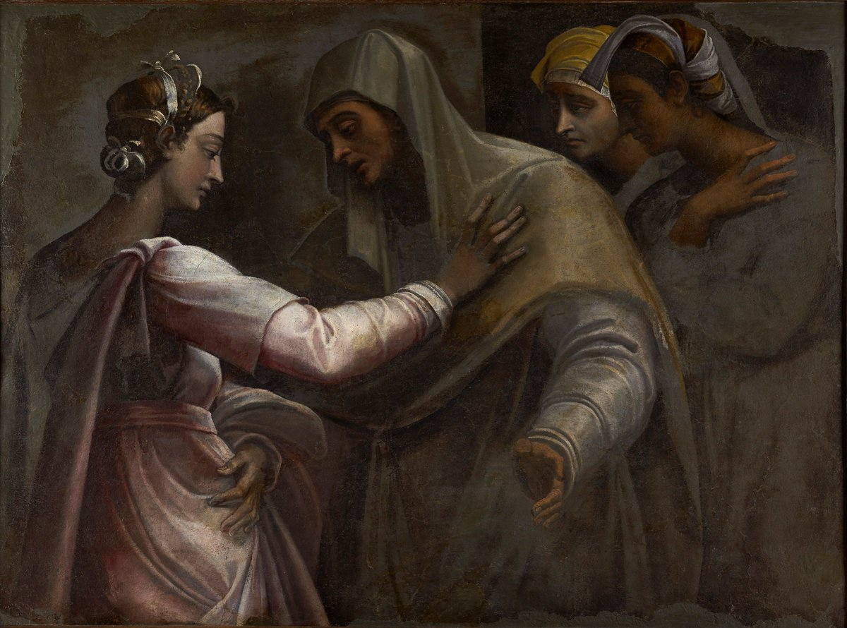 Fragment of a Visitation by Sebastiano del Piombo. "Filippo Sergardi, the executor of Agostino Chigi’s estate, before his death in 1541 commissioned Sebastiano to paint a mural of the Visitation in S Maria della Pace, Rome (dismembered and detached before 1614), the surviving fragments (Alnwick Castle, Northumb.) of which are impressive for their simplified forms and intense expressiveness, qualities that anticipate so much of the painting of the late 16th century." - Lucco, Mauro, "Sebastiano del Piombo", Grove Art Online, Oxford Art Online. Oxford University Press. Web. 1 Apr. 2017. subscription required